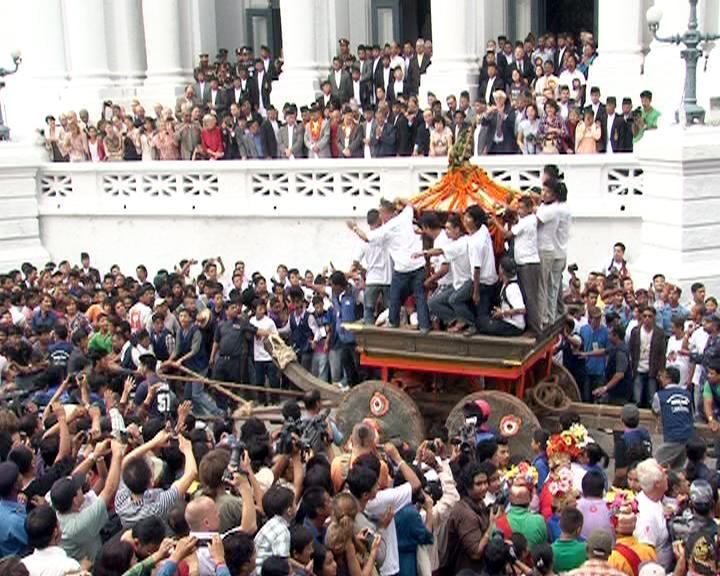 A cultural festival celebrated by Newars in Nepal.